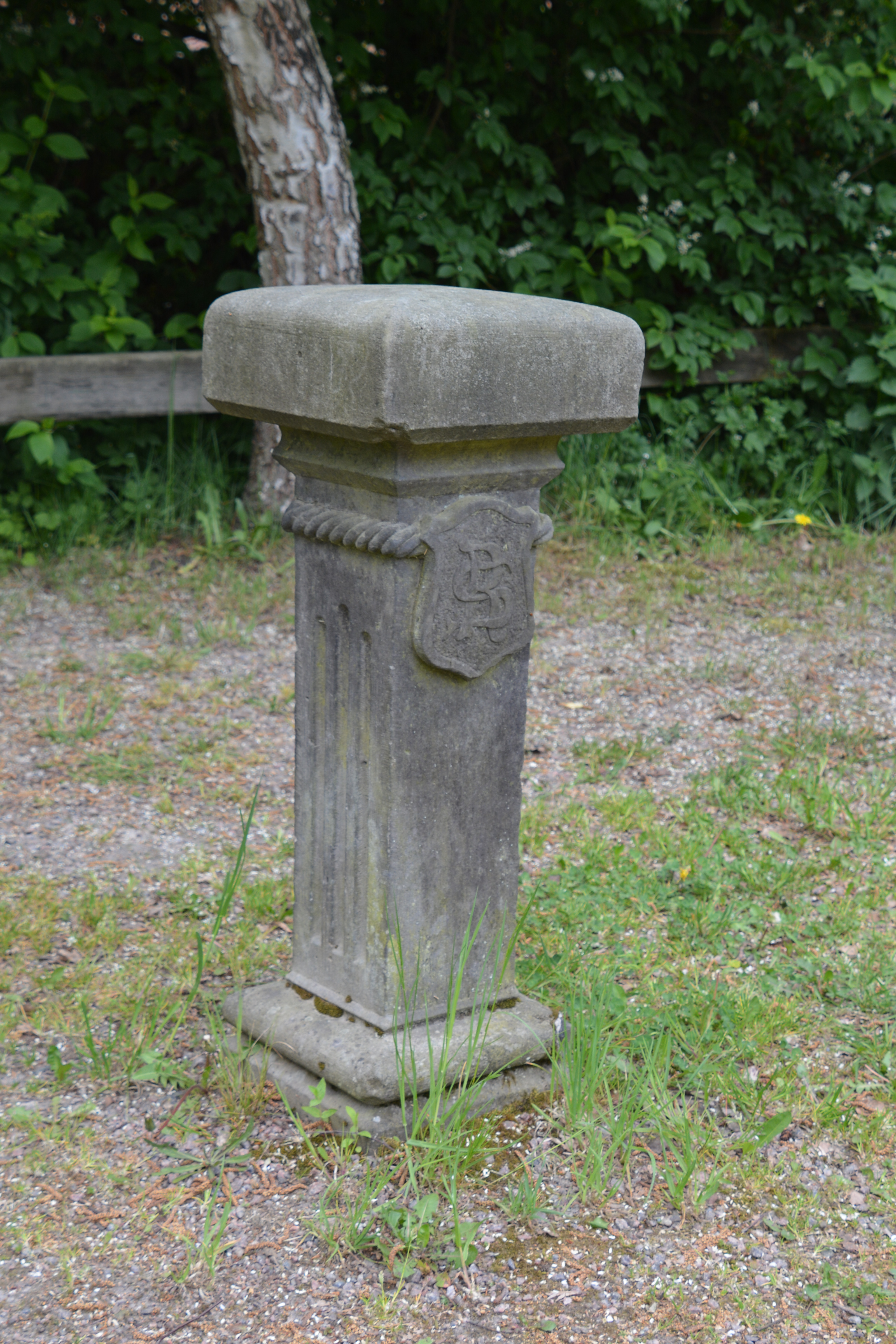 Pelare av höörsandsten. Höörs mölla. Höör sandstone pillar at Höör Watermill, Höör, Sweden